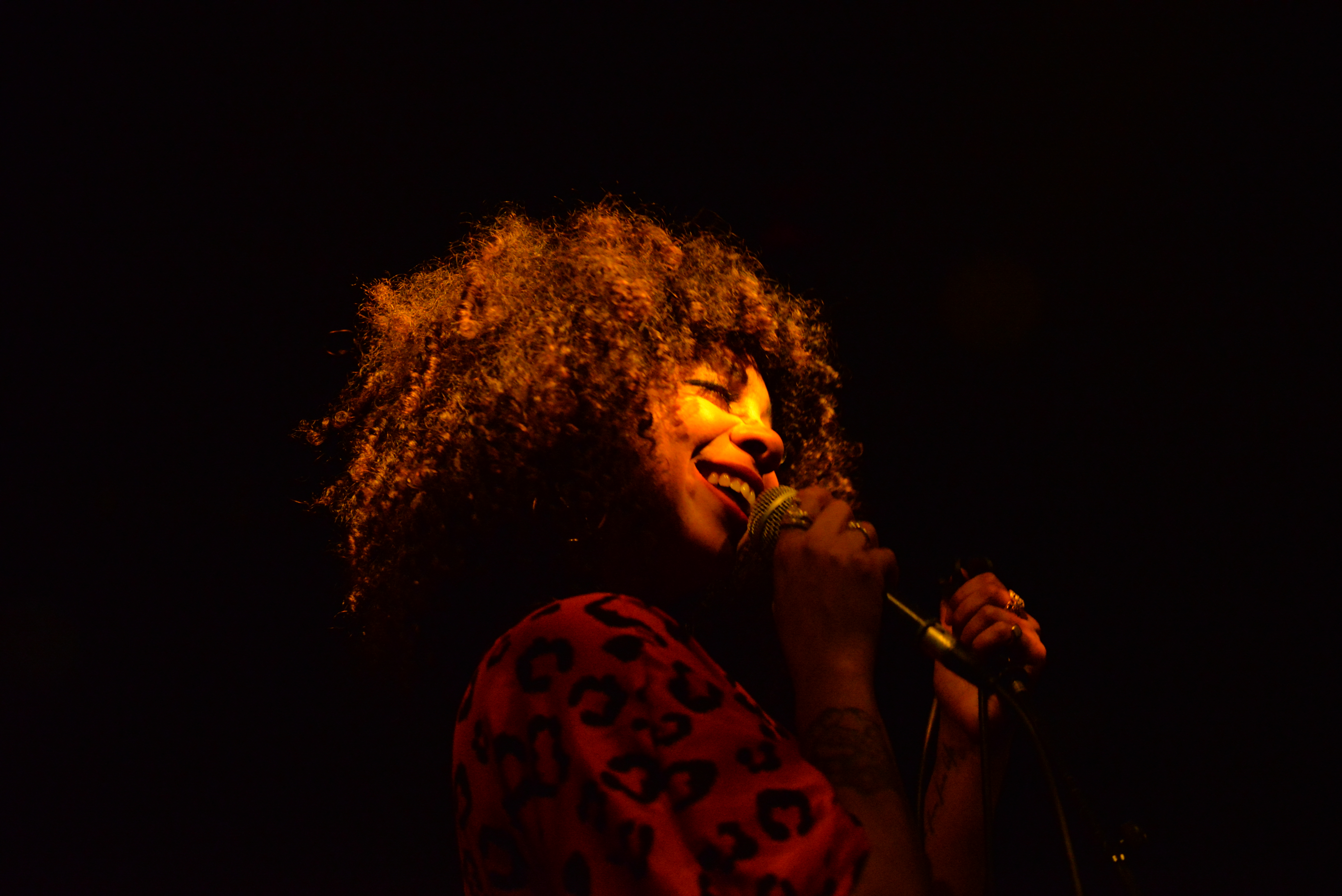 Ancienne Belgique januari 24th 2019